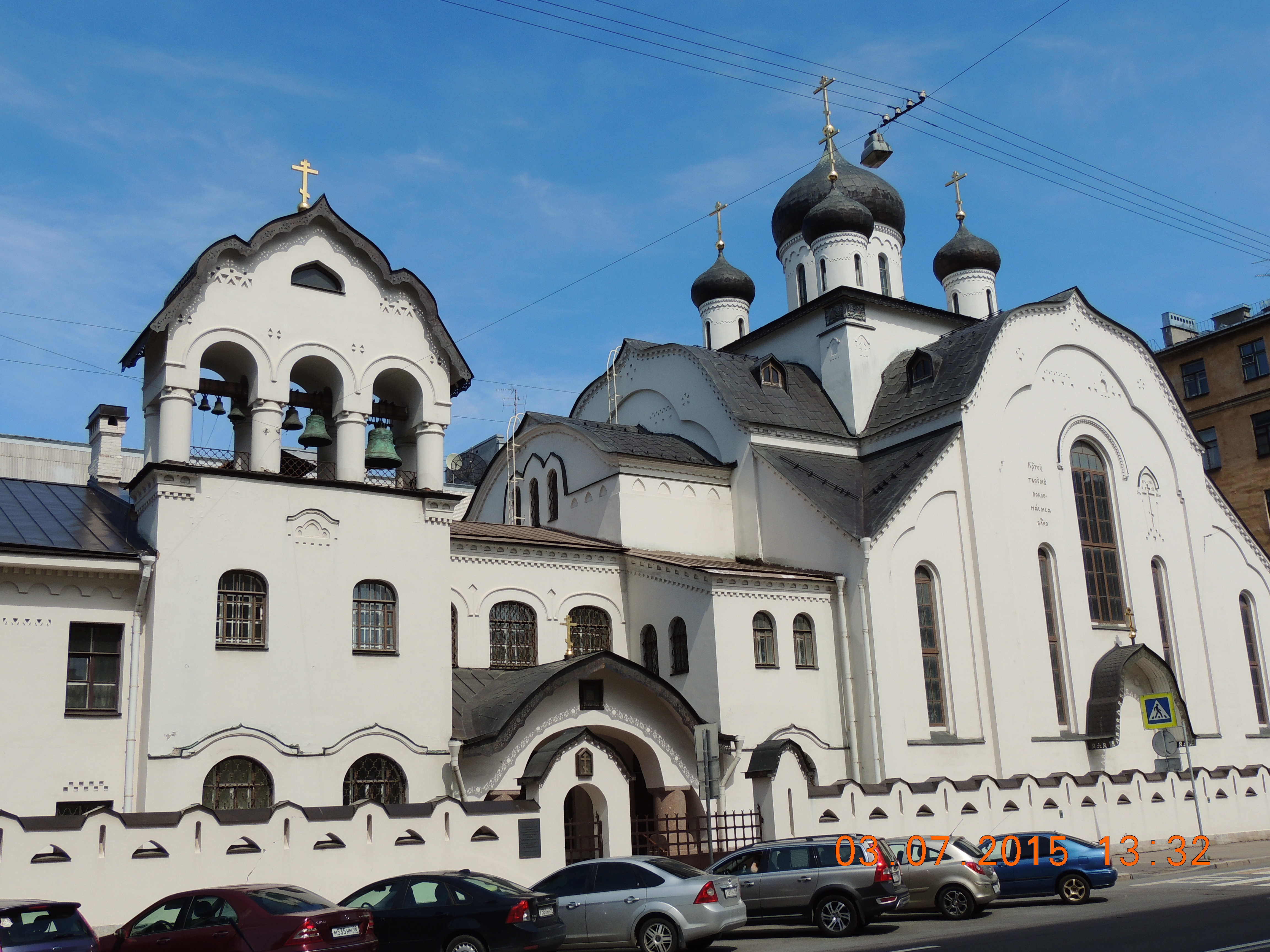 The Church of Holy Virgin